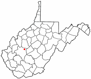 Locator map of Clendenin, West Virginia.